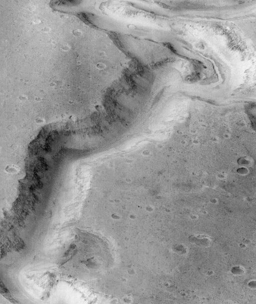 Inner channel in Nanedi Valles, as seen by mgs. Location is 5 N and 48.4 W